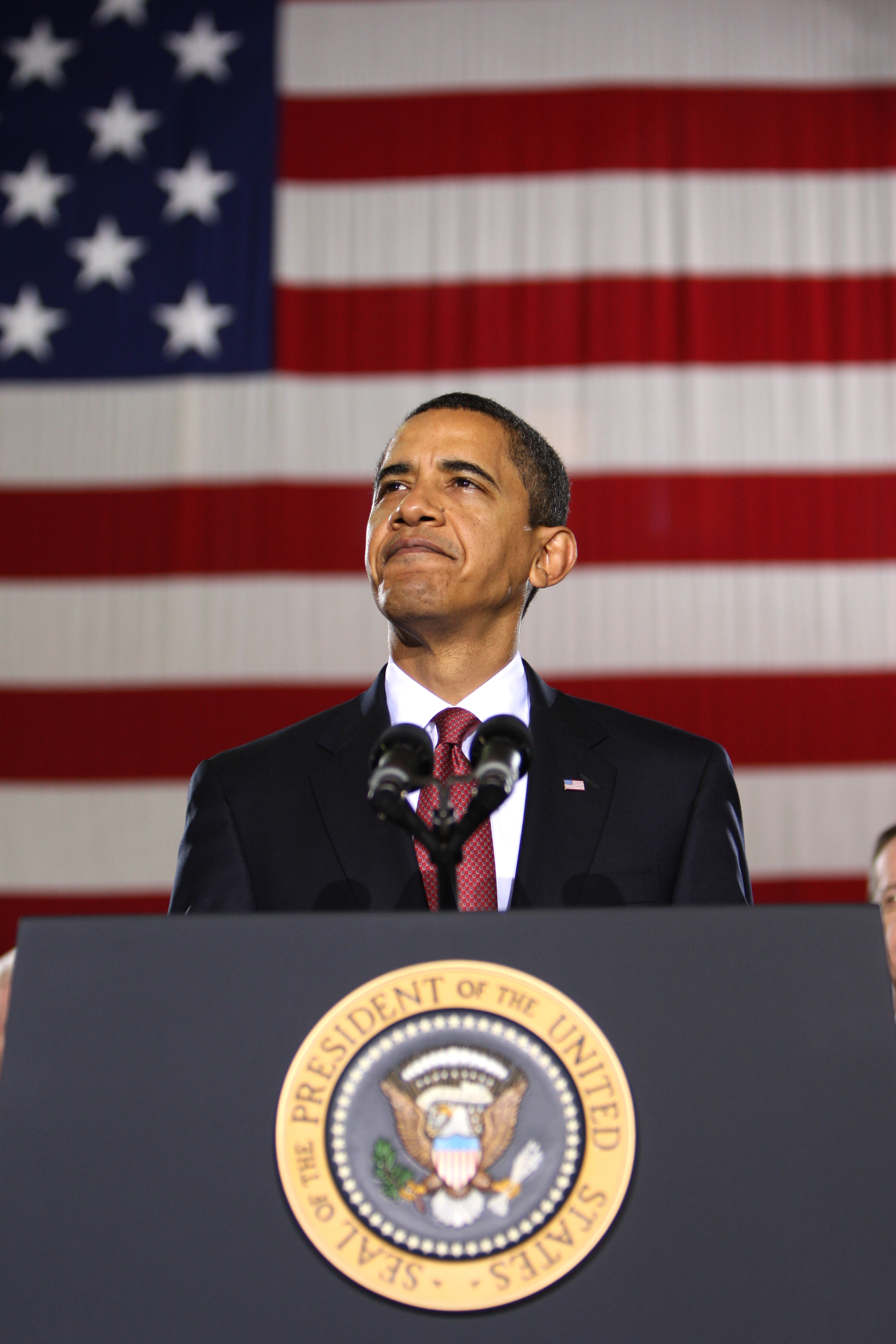 President of the United States Barack Obama talks to service members and civilians during his visit to Camp Lejeune, N.C., Feb. 27, 2009. The President is visiting Camp Lejeune to speak on current policies and exit strategy from Iraq. VIRIN: 090227-M-7069A-002